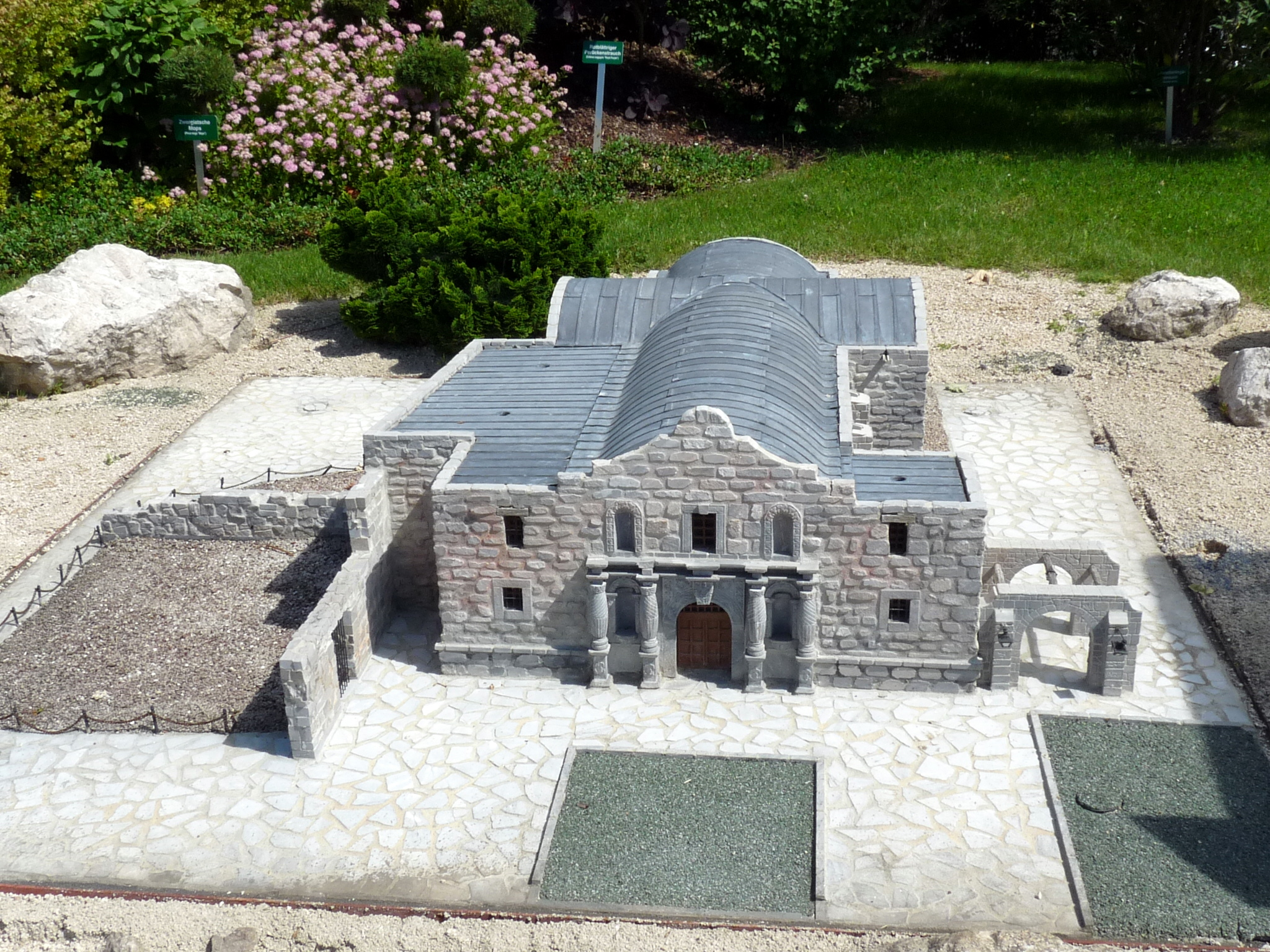 Minimundus Klagenfurt, The Alamo, San Antonio